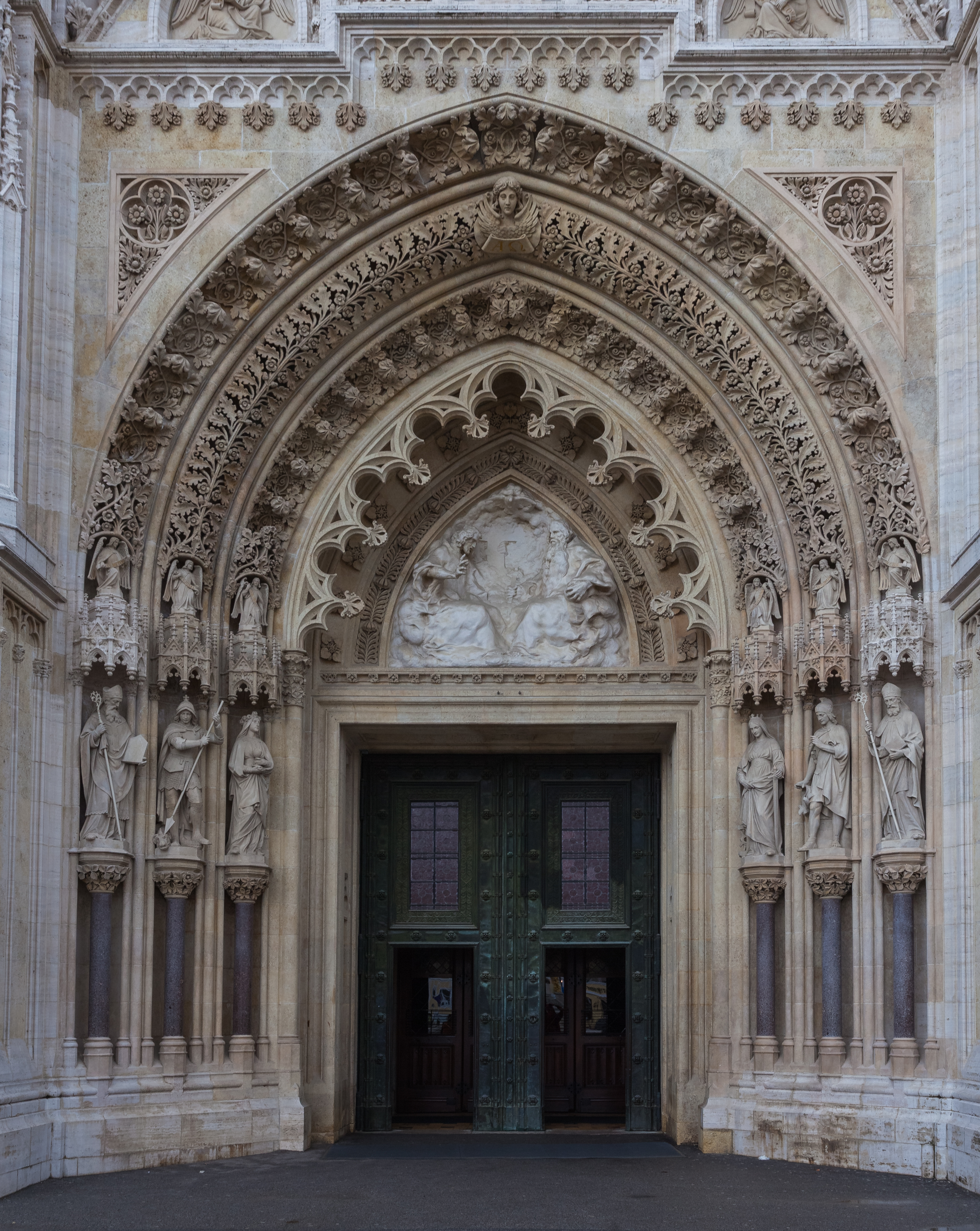 Zagreb Cathedral, Croatia